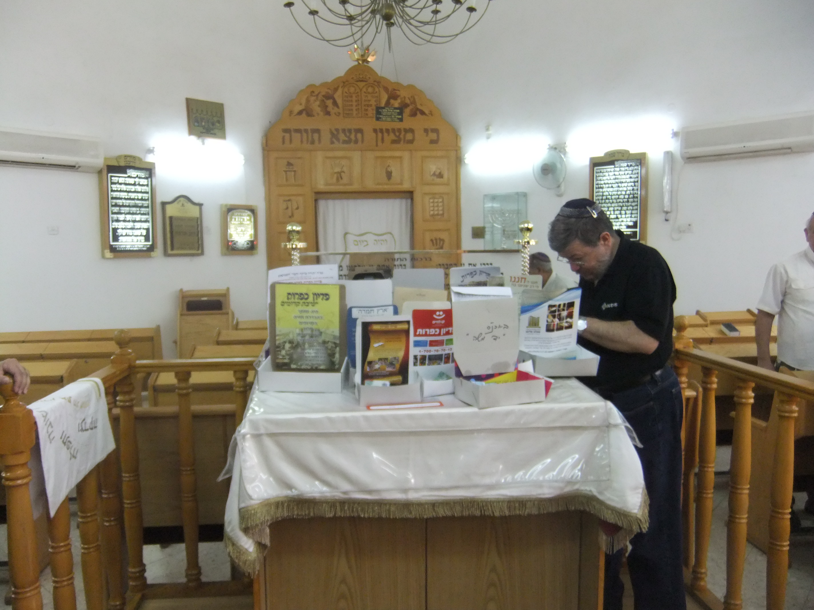 Pidyon Kapparot boxes on the Bina in Yad Moshe synagouge in Hashmonaim